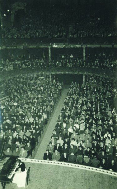 Ana Fort Comas (Palau de la Música Catalana)